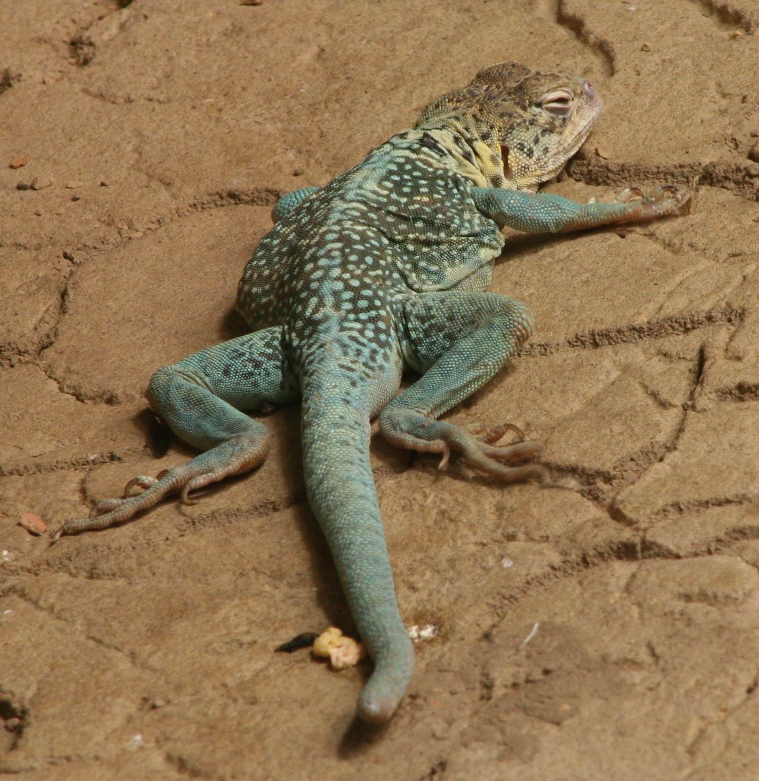 Common Collared Lizard (Crotaphytus collaris collaris) at the Buffalo Zoo